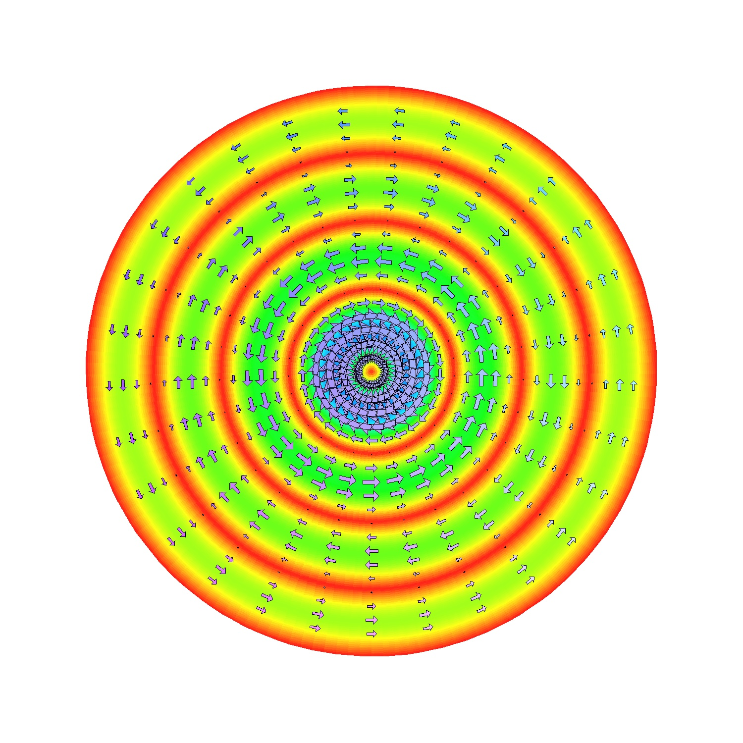 Plot of E and H fields on the TEnl mode defined by n and l.